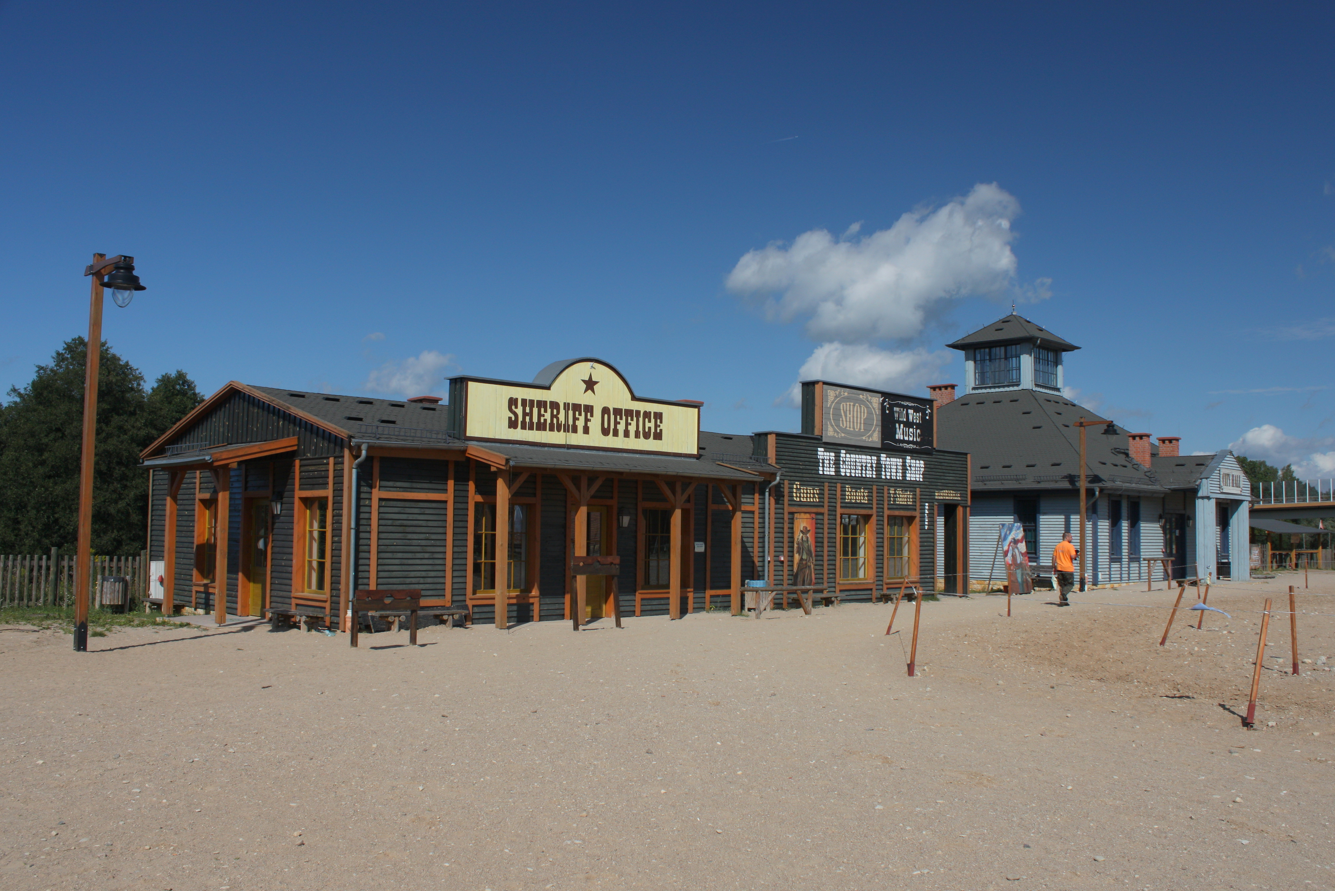 Mrongoville in Mrągowo.